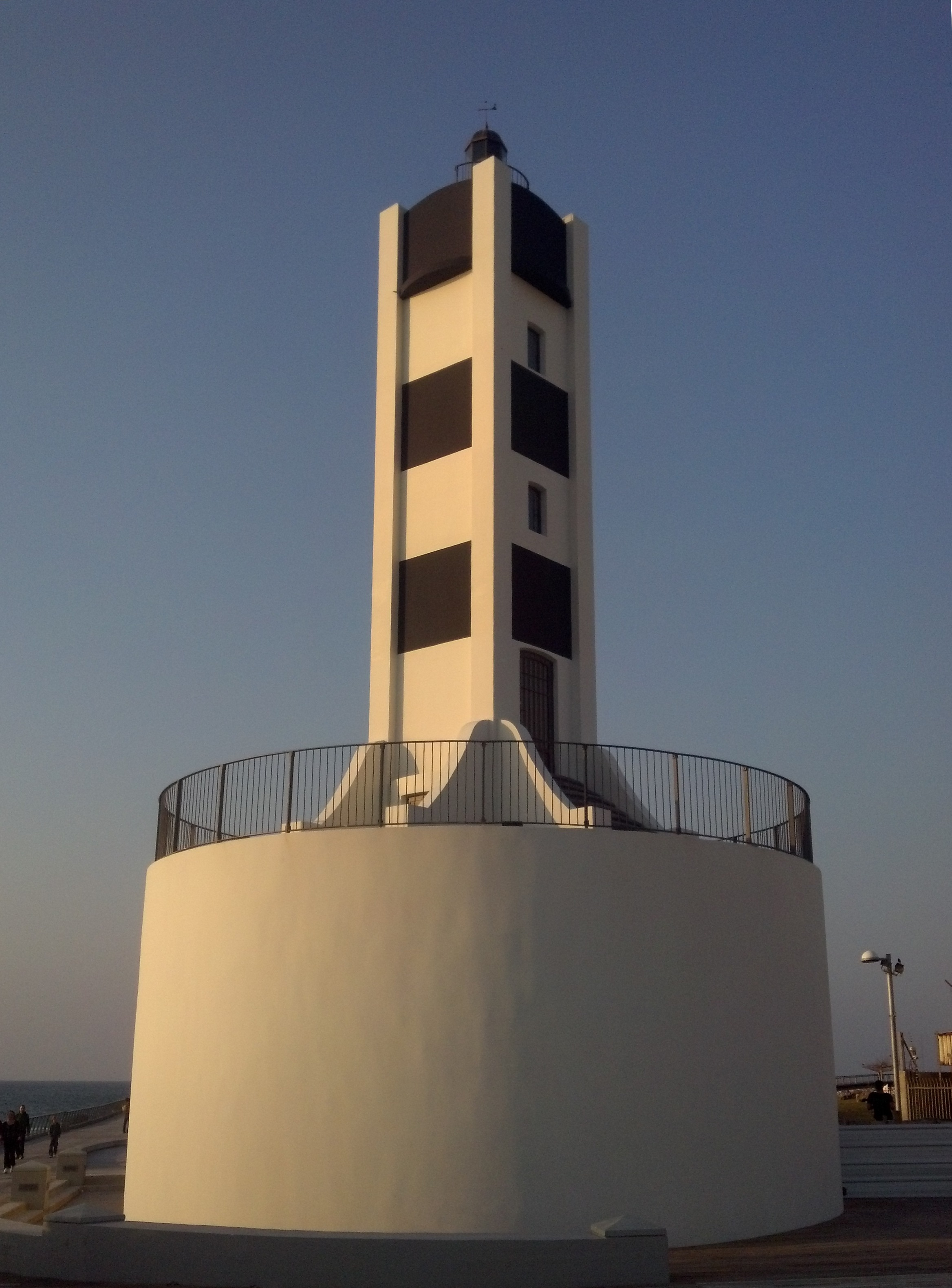 Reading Light, also known as Tel Kudadi Light, Hayarkon Light and Tel Aviv Light in 2013 after restoration